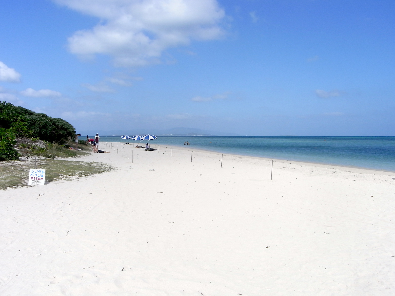 Kondoi-hama, Taketomi Island, Okinawa, Japan